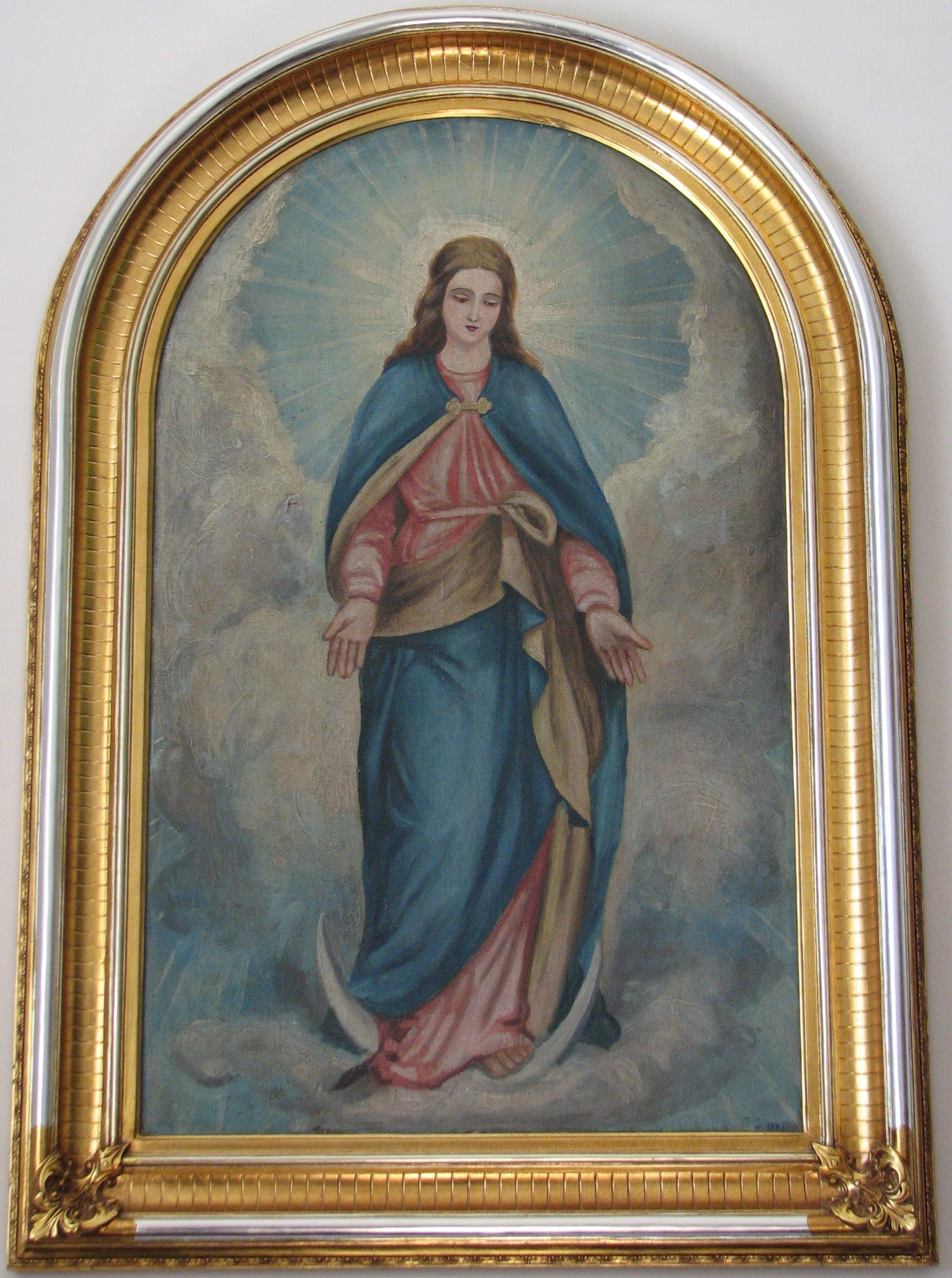 The picture depicts the Virgin Mary on an early 20th century painting (the painter is unknown). It is exhibited in the Greek Catholic Cathedral of Hajdúdorog, Hungary. This painting decorates the Western wall of the Southern side-nave. It represents the typical symbols of the Blessed Virgin: the crescent under her feet that symbolizes Mary's chastity and the sunbeams that appear as a halo around the Virgin Mother's head.